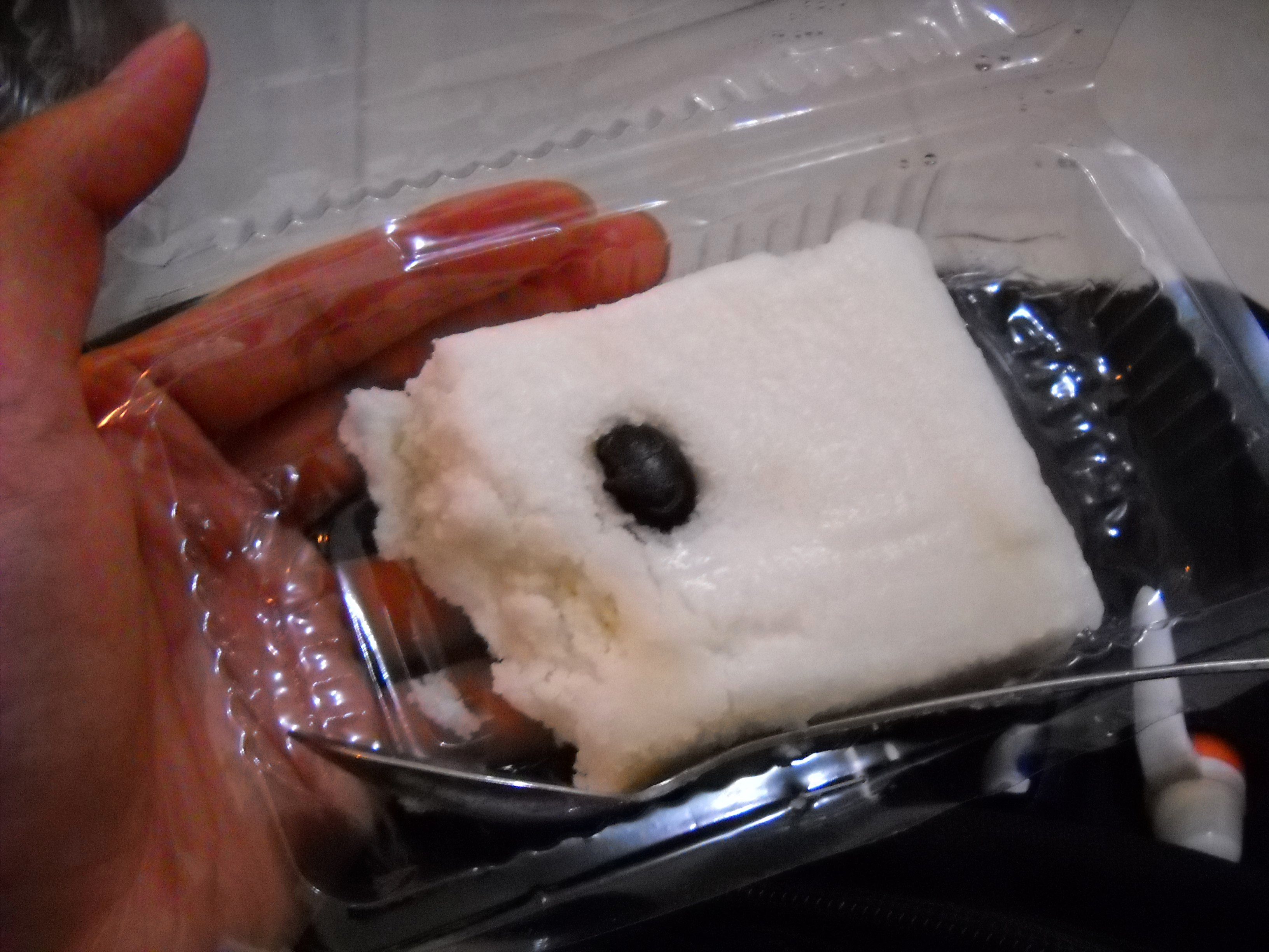 Baekseolgi, white rice cake from Korea.